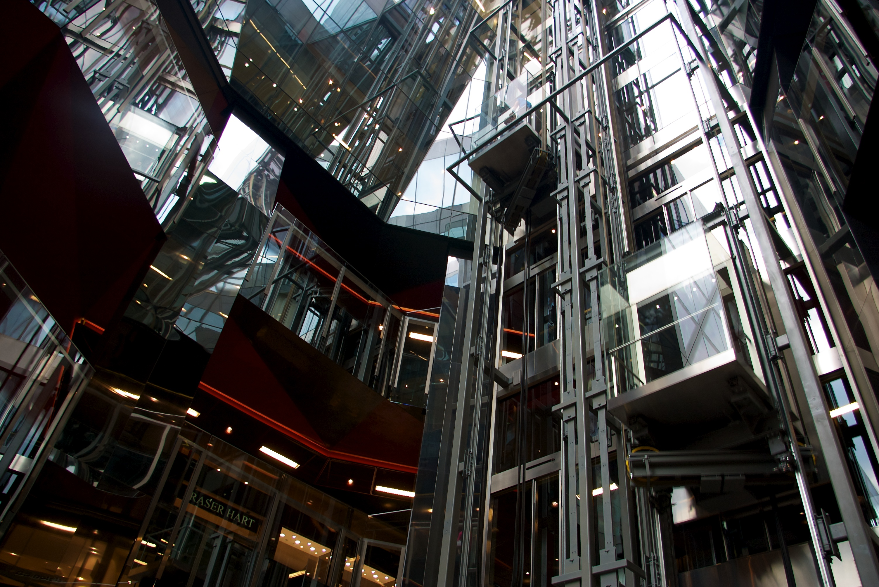 One New Change, a retail and office development next to St. Paul's in the City of London: photographed from the basement of the retail area looking up the lifts.